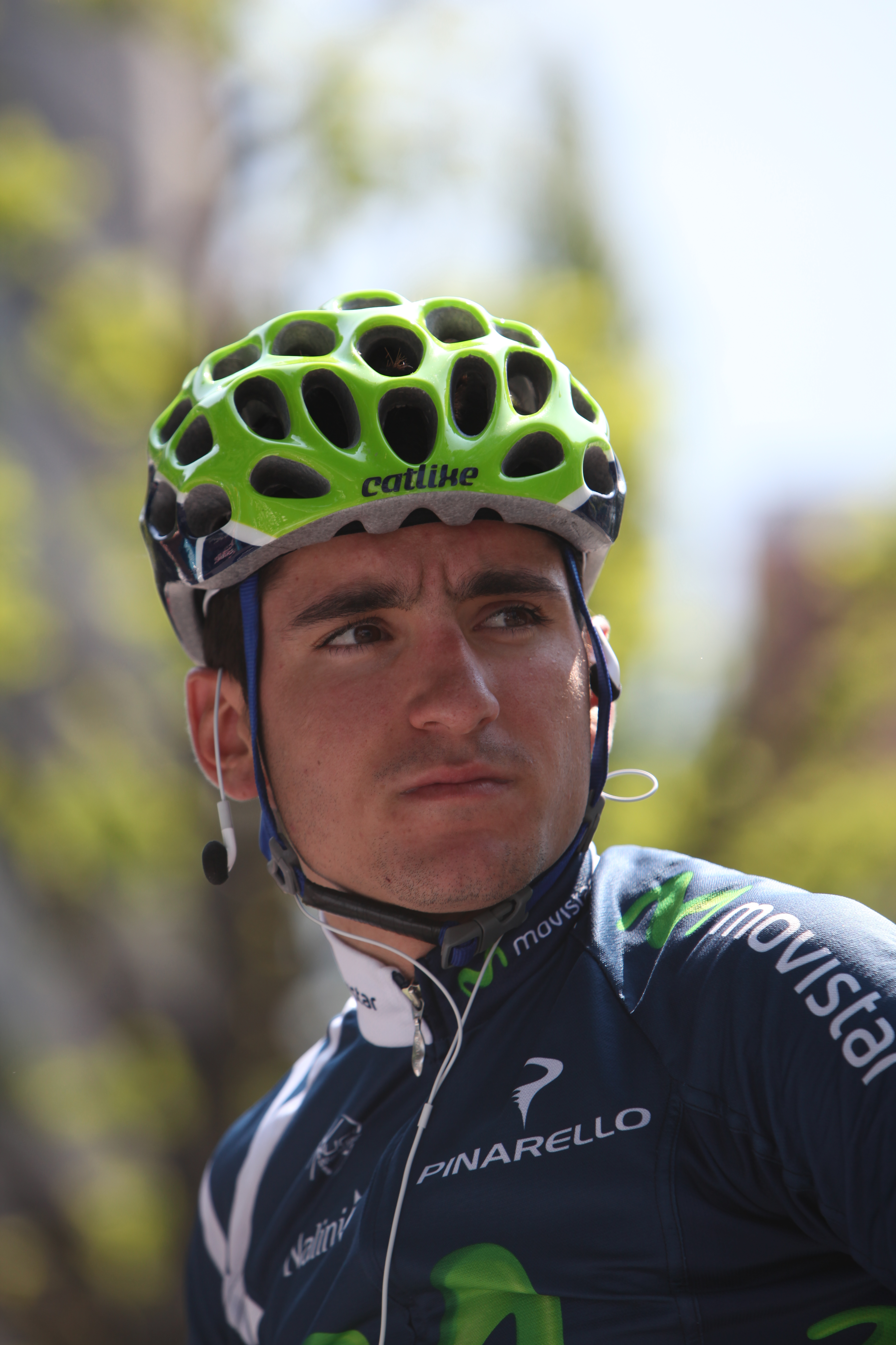 Enrique Sanz Unzue at the prologue of the Tour de Romandie 2011